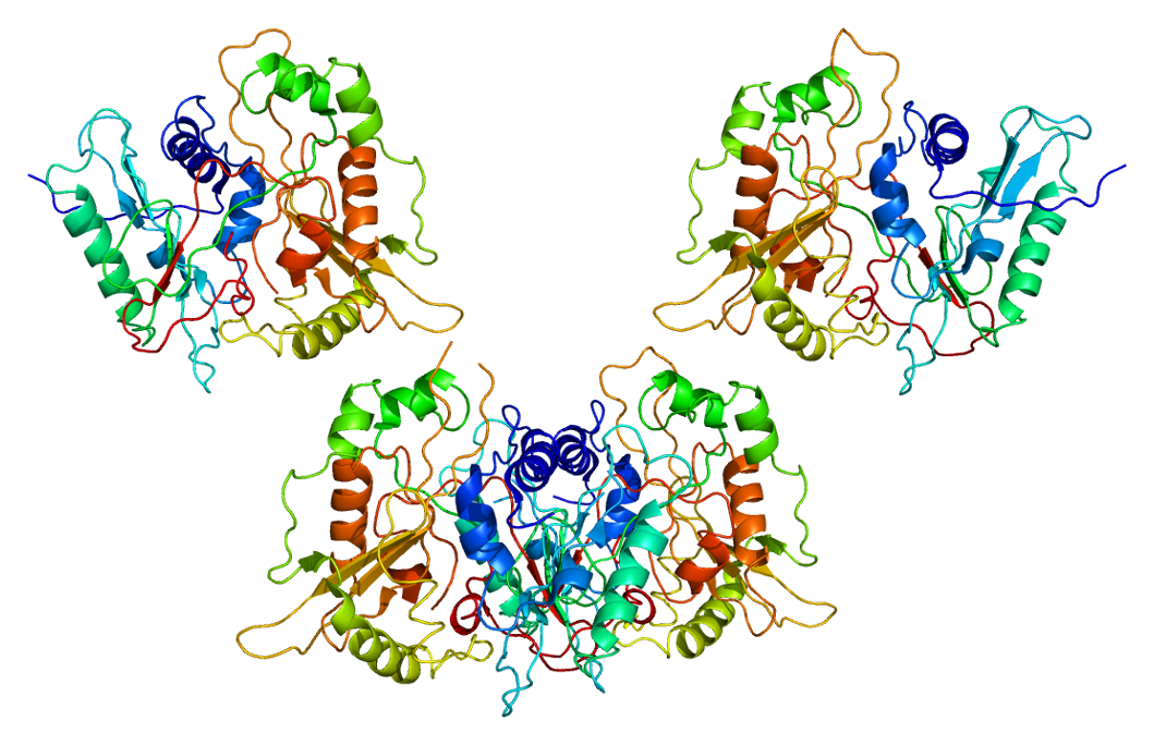 Structure of the NMT1 protein. Based on PyMOL rendering of PDB 1rxt.